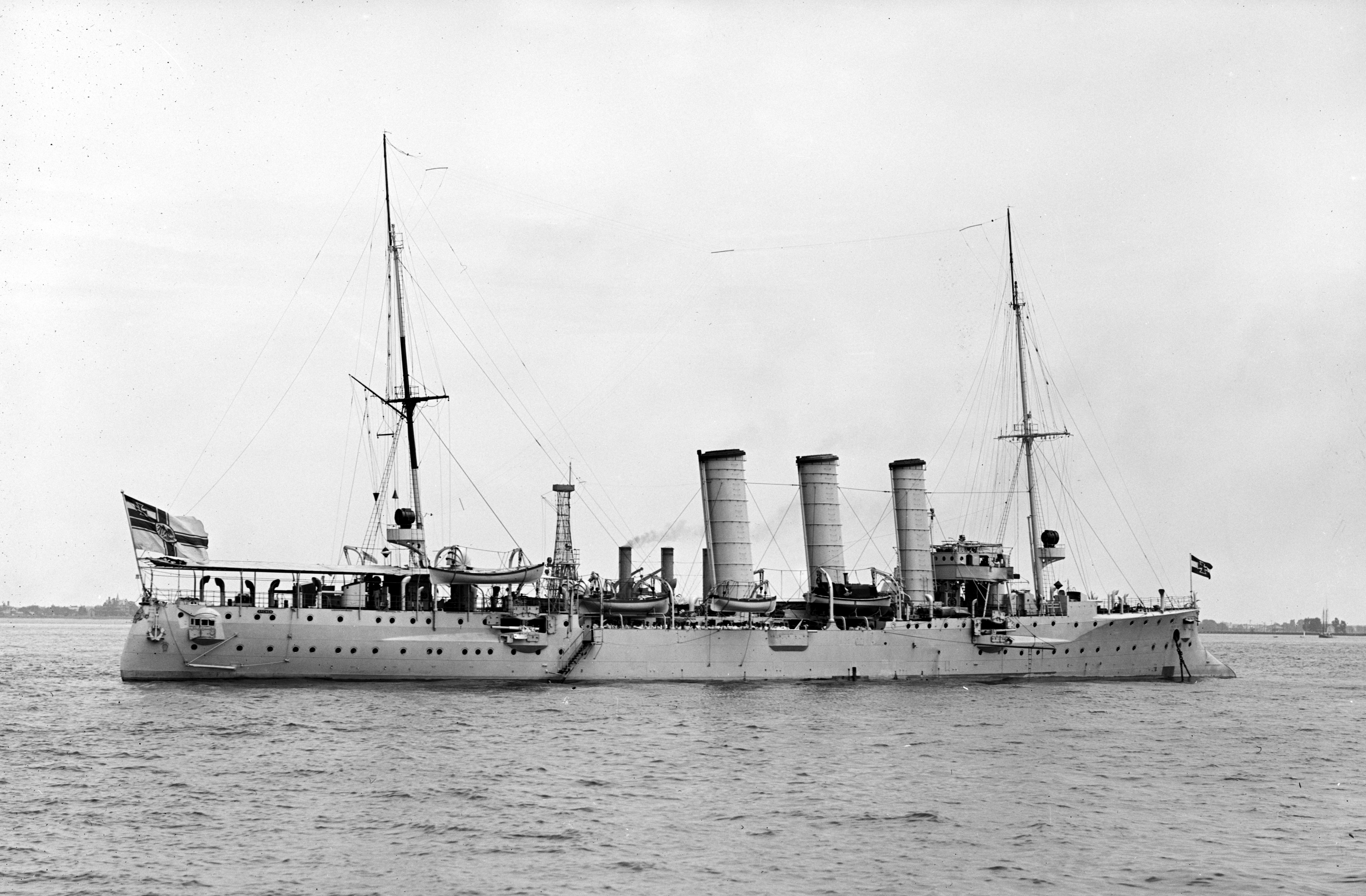 The German light cruiser SMS Bremen during the visit of a German navy squadron (battlecruiser SMS Moltke, light cruisers SMS Bremen and SMS Stettin) to the U.S. in 1912. The cage masts and funnels visible aft belong to a U.S. ship anchored behind Bremen.